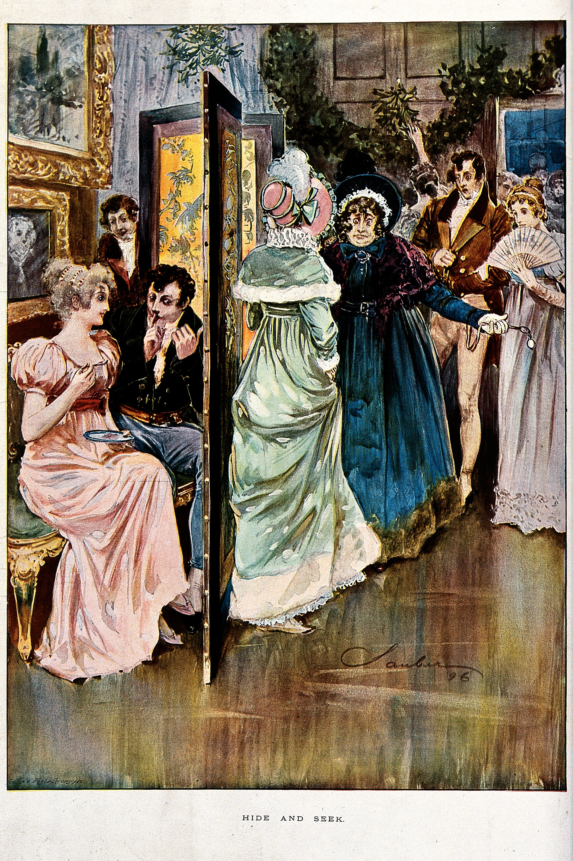 Hide and Seek. Party scene; a young couple hide behind a screen while two women search for them. The room is decorated with garlands of holly and bunches of mistletoe hang from the walls and ceiling. Photographic reproduction by Swaine. Iconographic Collections Keywords: Romance; Party; courtship; Flirting; Celebration